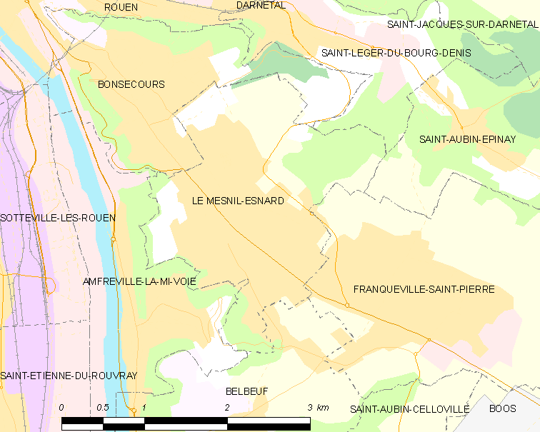 Map of French municipality Le Mesnil-Esnard